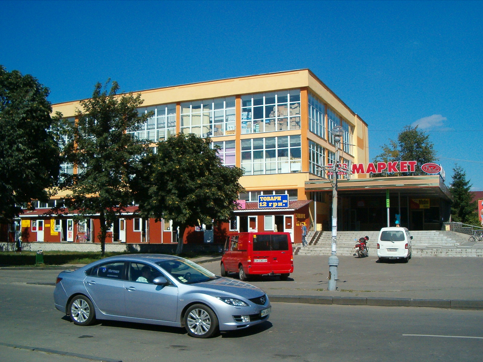 Univermag bilding in Kostopil